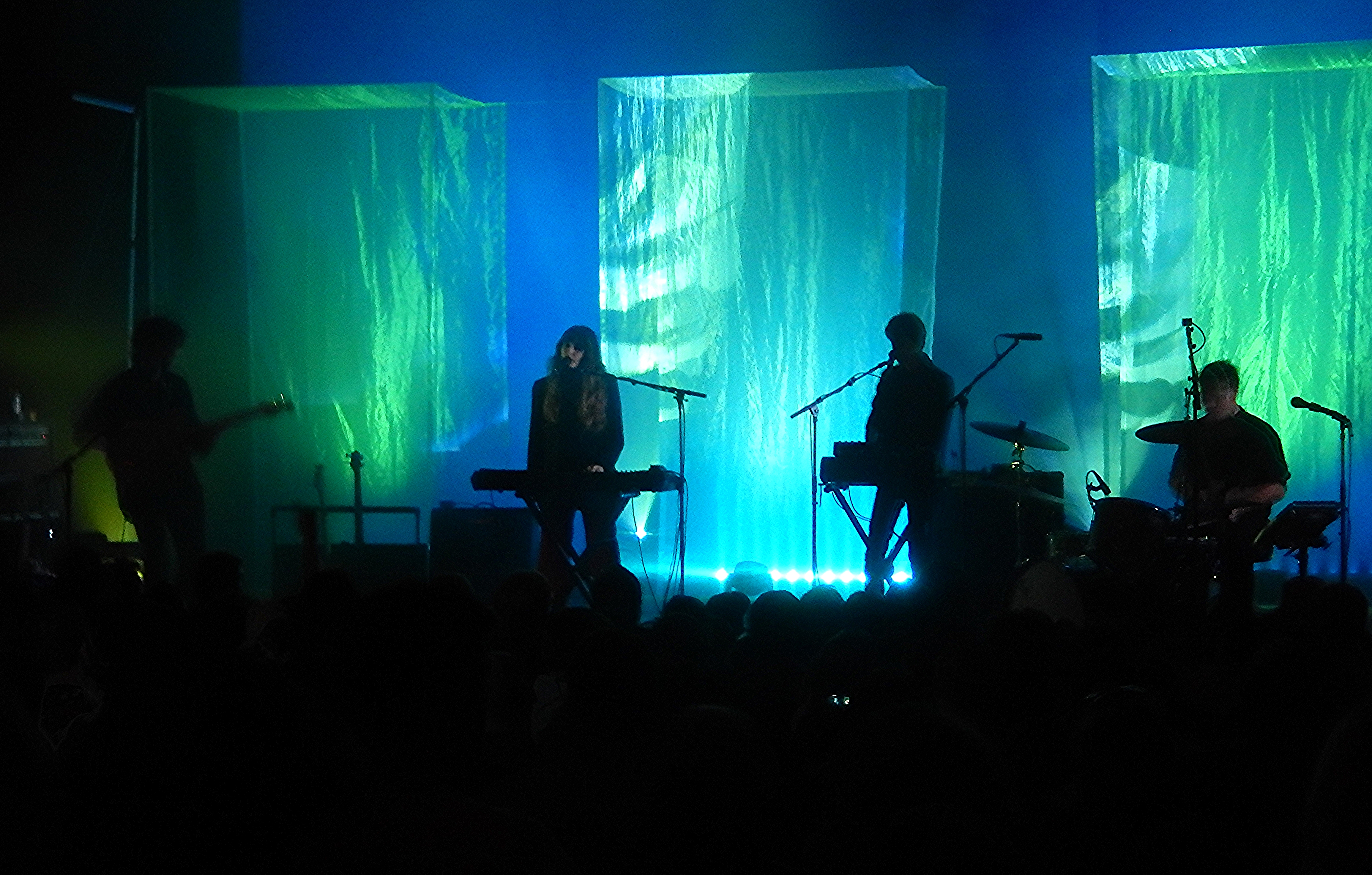 American dream pop band Beach House performing at the Pabst Theatre in Milwaukee, Wisconsin on September 21, 2015